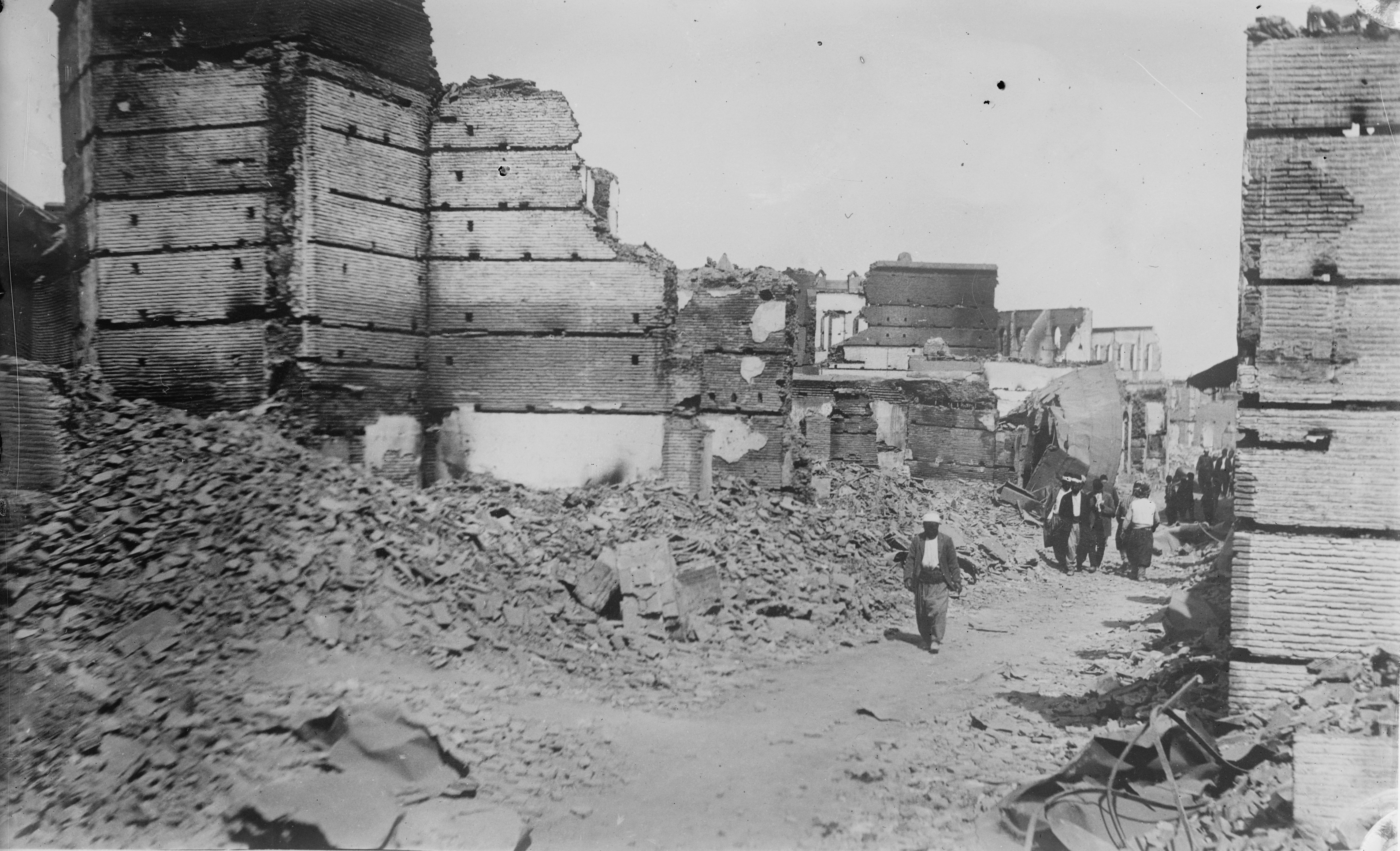 Adana - Street in Christian Quarter, June '09